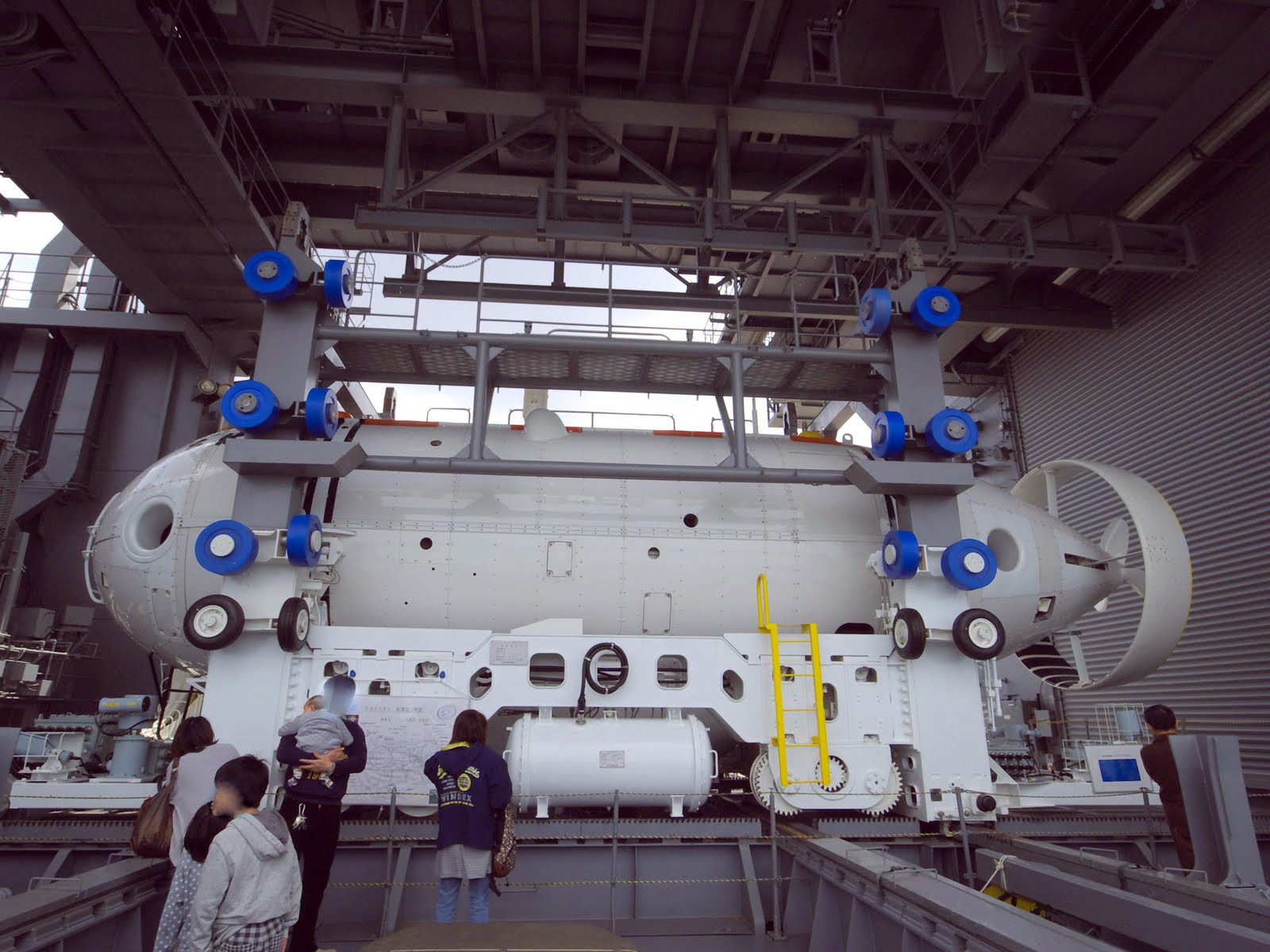 DSRV on board JS Chihaya (ASR-403). Olympus E-1